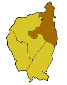 Archdiocese of Dublin in the Catholic Province of Dublin. This is a current map of the ecclesiastical province in the Catholic Church. The crosses mark where the current Cathedrals of each diocese is located. The specific dioceses are in different colours.